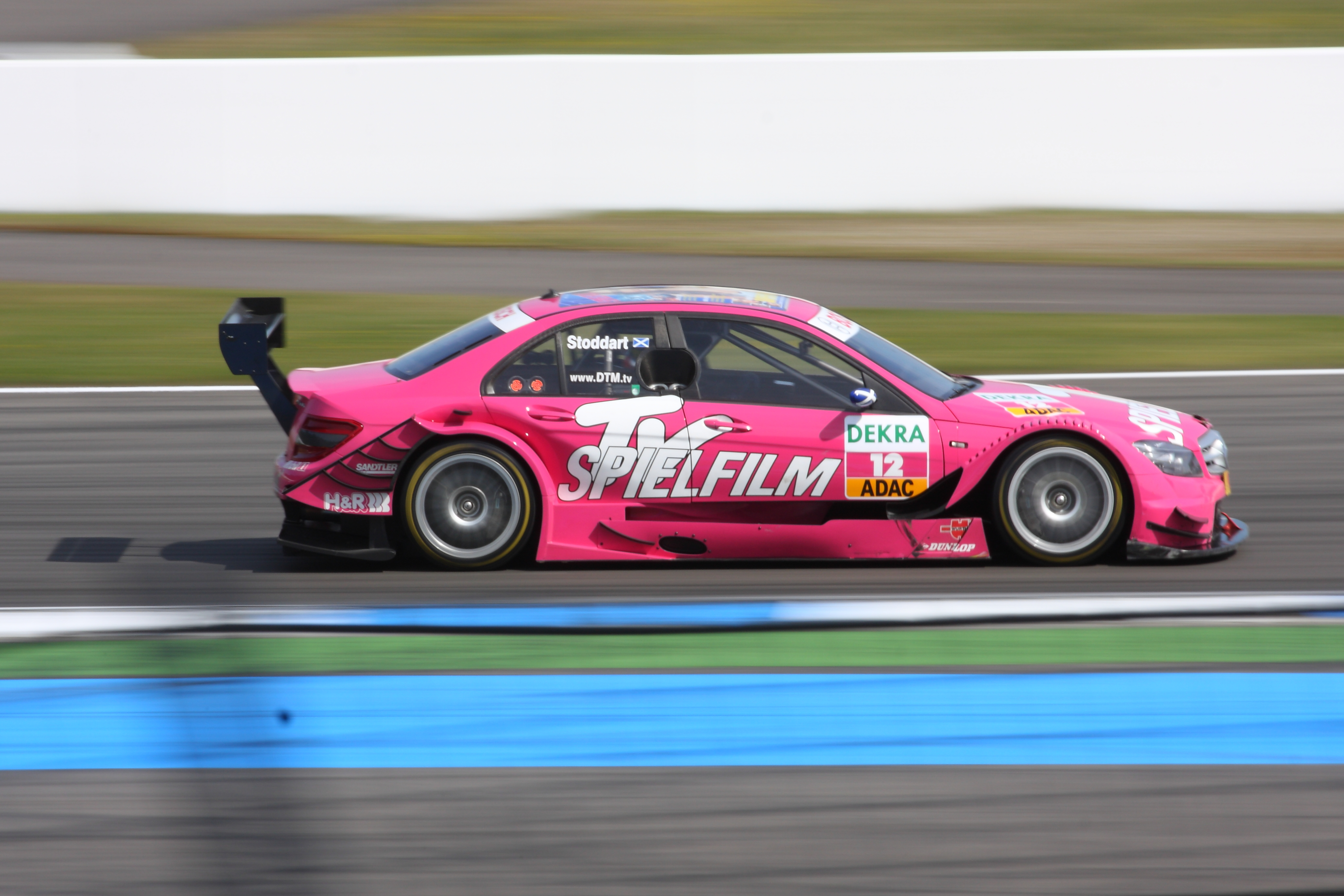 DTM car Mercedes-Benz Season 2010 (C-Class, W204), Susie Stoddart (driver)